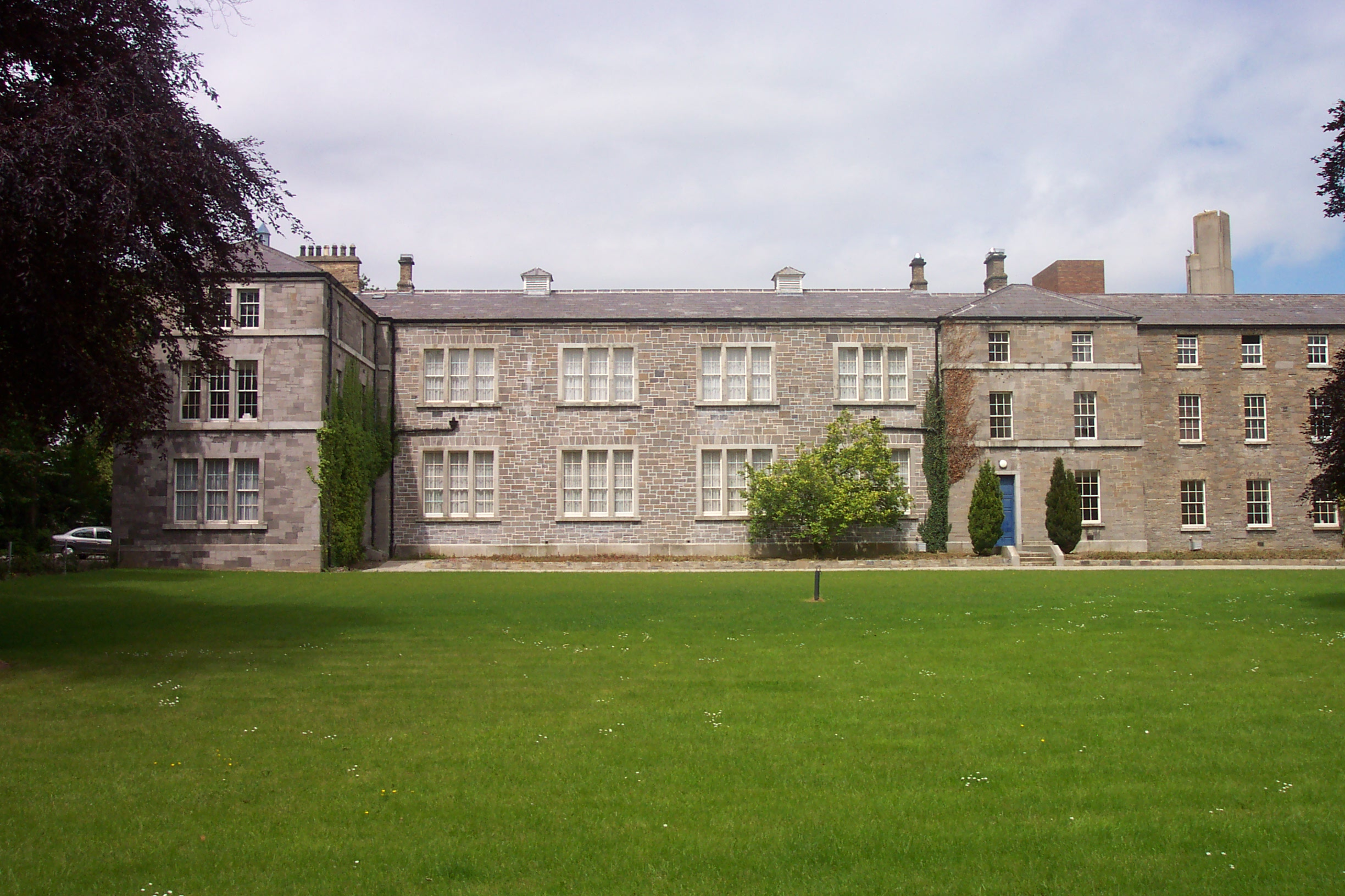 Albert College Front1 This photograph was taken by Beta in June 2005.